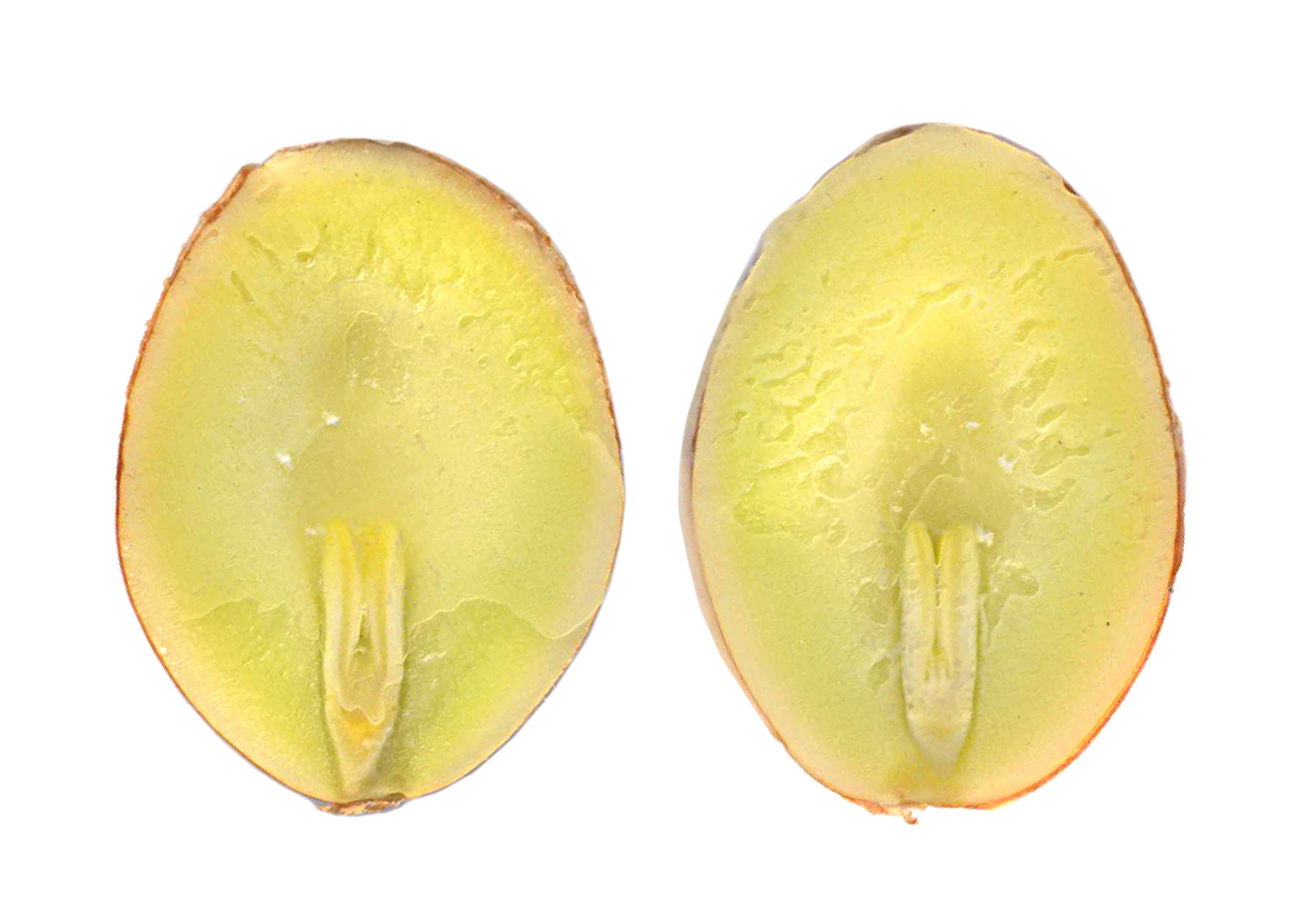 Longitudinal cut of albuminous seed of Ginkgo biloba (photo: Mihailo Grbic)